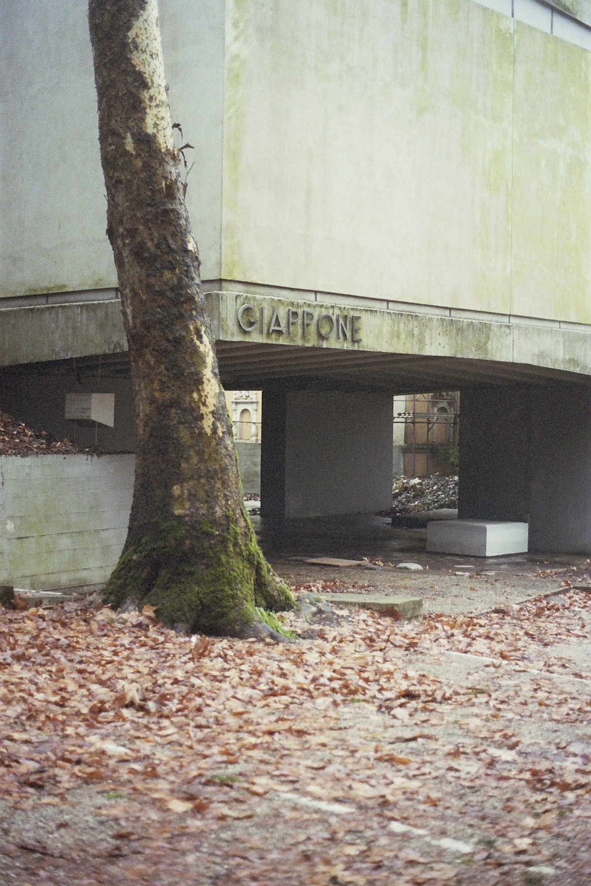 This is the permanent Japanese pavilion at the Venice biennial.